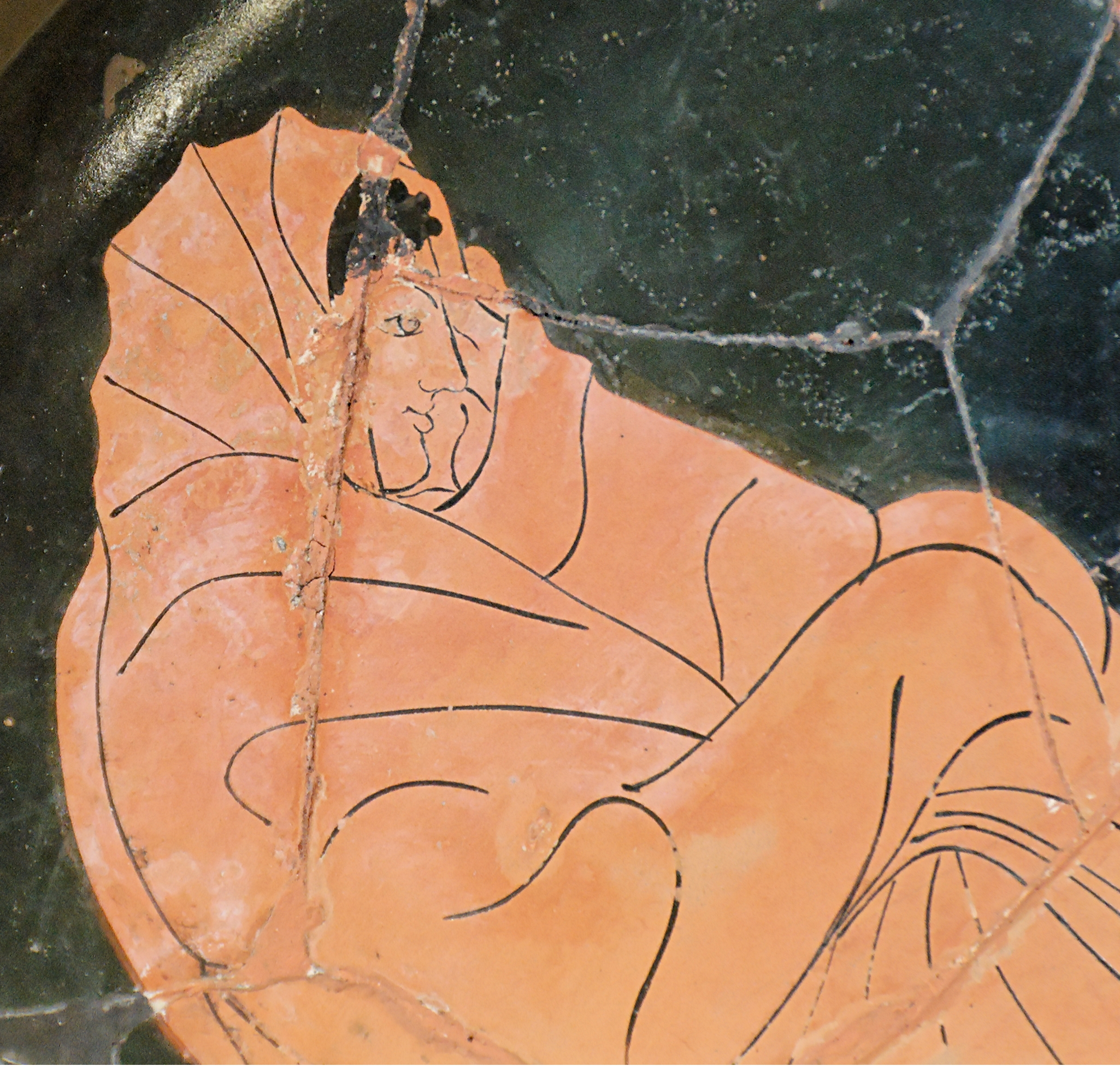 Achilles sulking, detail from a scene representing the embassy of Odysseus to Achilles (Book 9 of the Iliad). Attic red-figure cup, ca. 480 BC–470 BC. From Vulci.